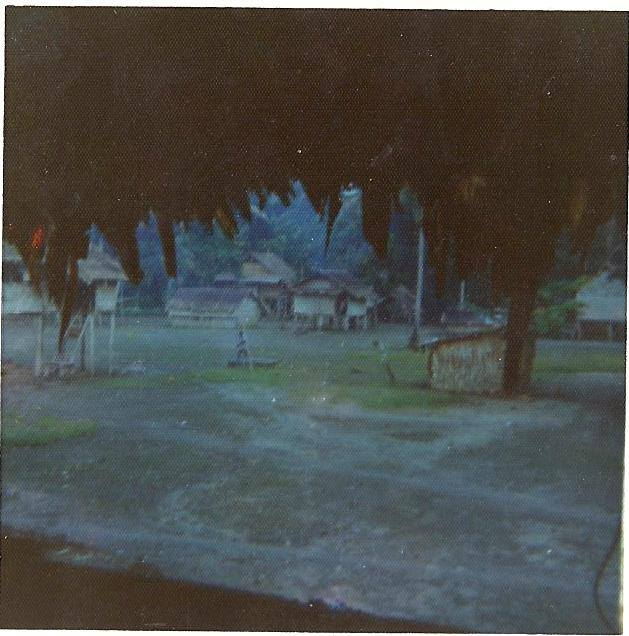 Tonu village in southeast Siwai, Bougainville, 1977